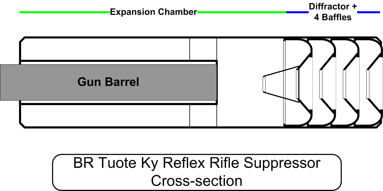 A BR Tuote reflex sound suppressor for assault rifles